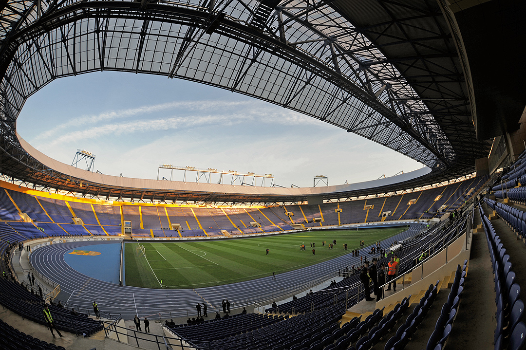 Metalist Stadium in Kharkiv, Ukraine